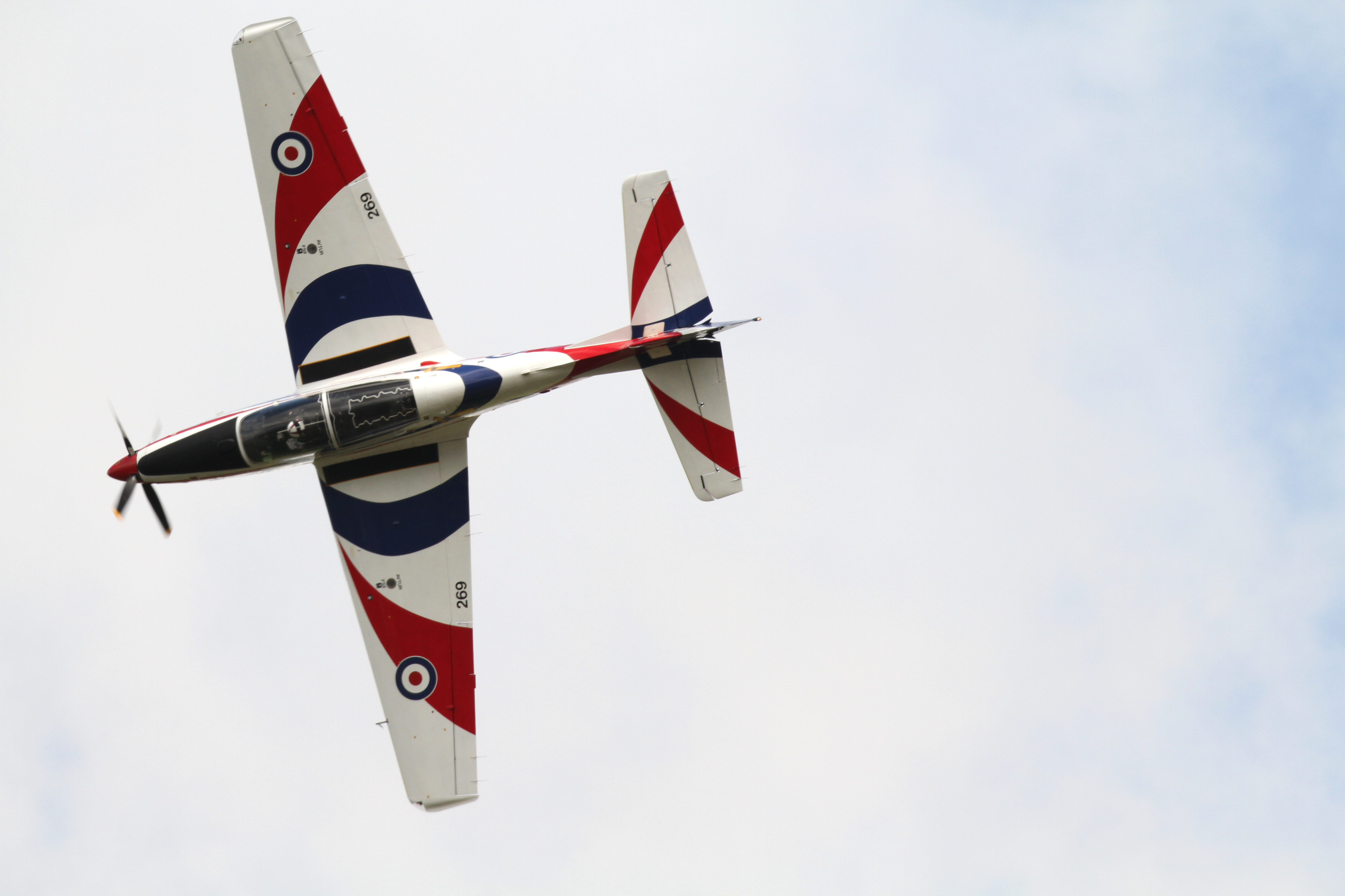 Shorts Tucano T1 1